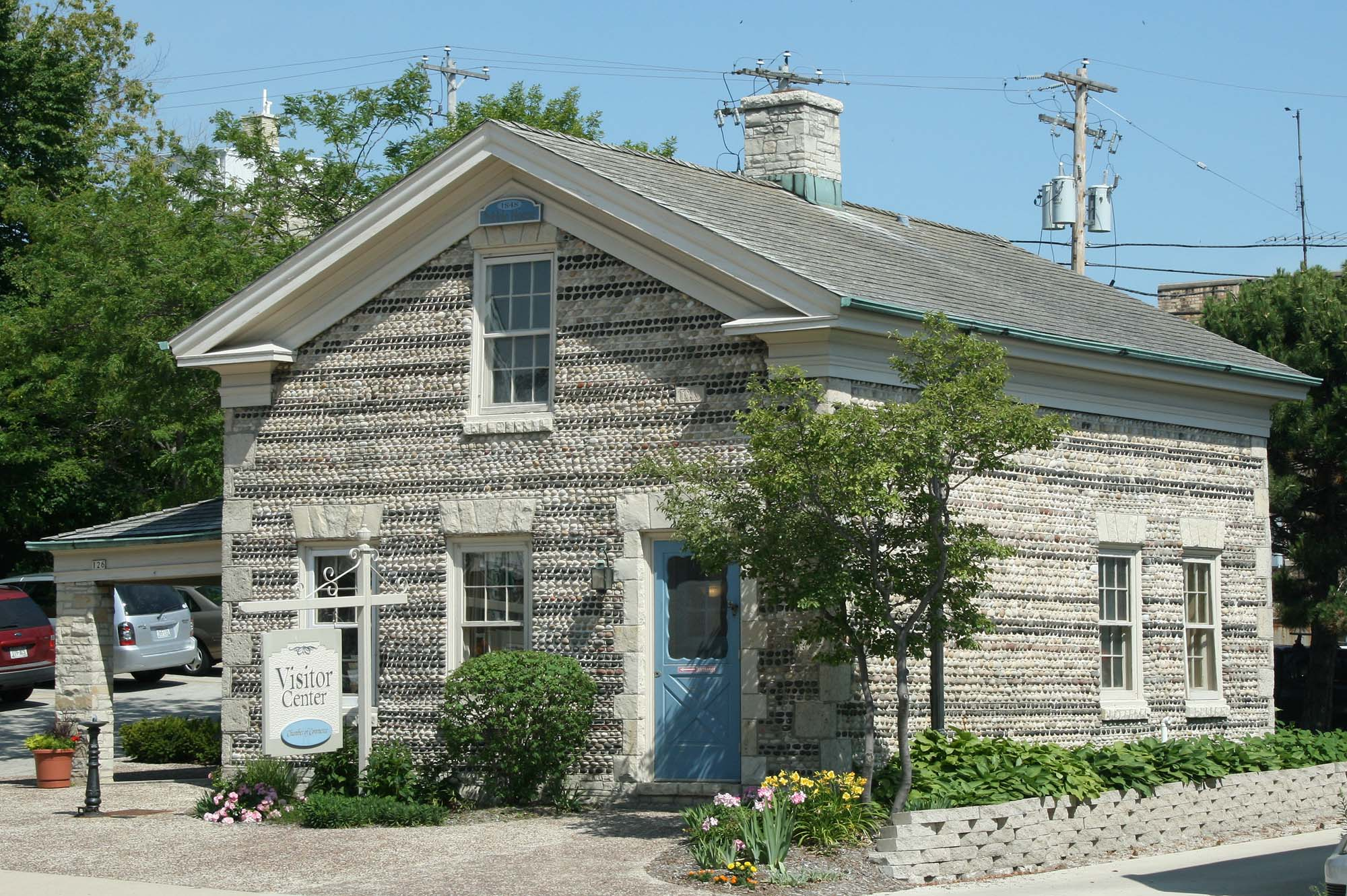 The Edward Dodge House, Registered Historic Place, Port Washington, Wisconsin. Currently the Chamber of Commerce's Visitor Center.